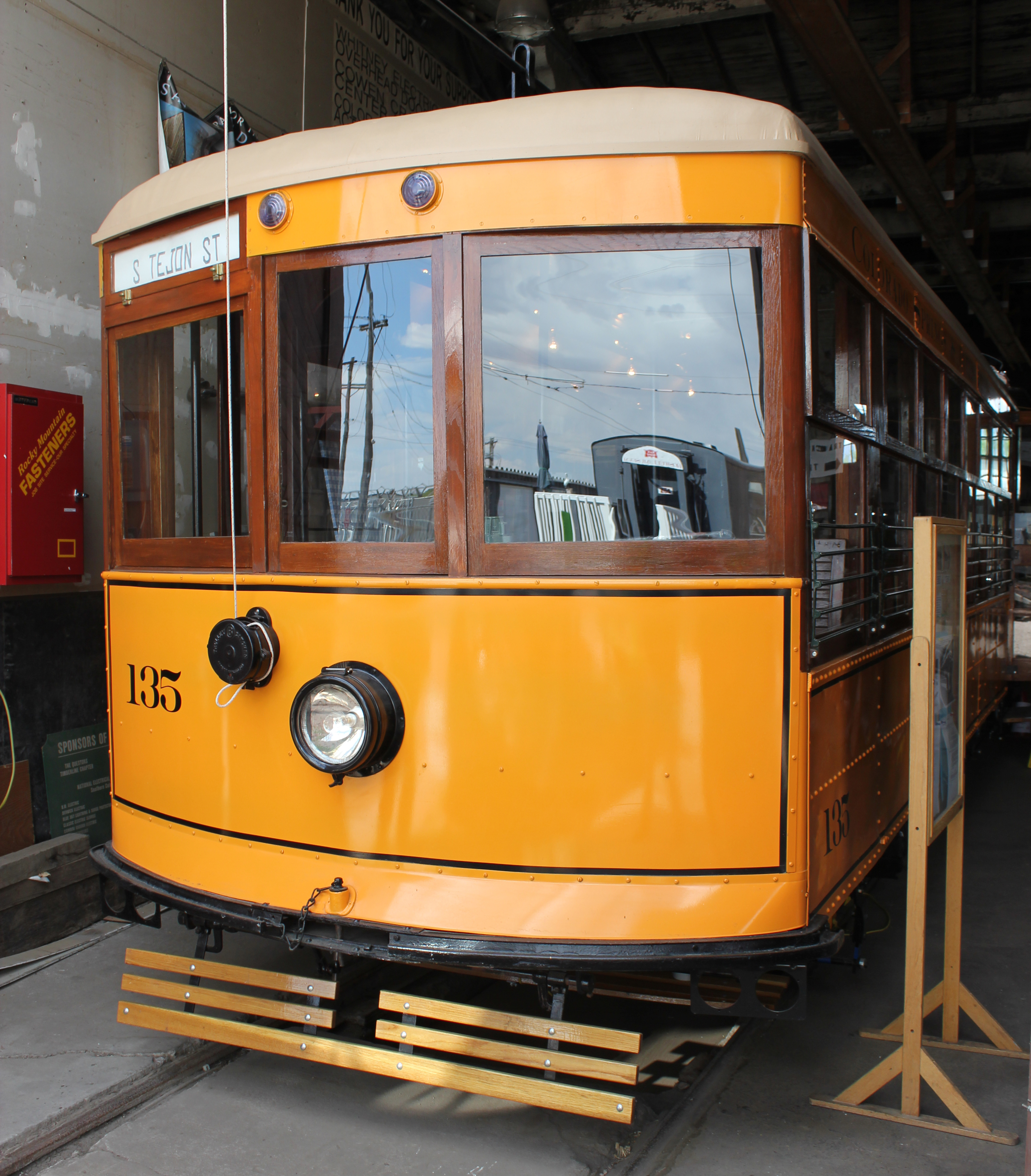 The Fort Collins Municipal Railway No. 22, located at the Pikes Peak Historic Street Railway Foundation and Museum, 2333 Steel Drive, Colorado Springs, Colorado. The car last saw service in Fort Collins, Colorado. As of 2013, it is undergoing restoration in Colorado Springs and has been "re-branded" as Colorado Springs & Interurban Railway no. 135. The car is listed on the National Register of Historic places. It was the last Birney tram car to work in revenue service in North America.